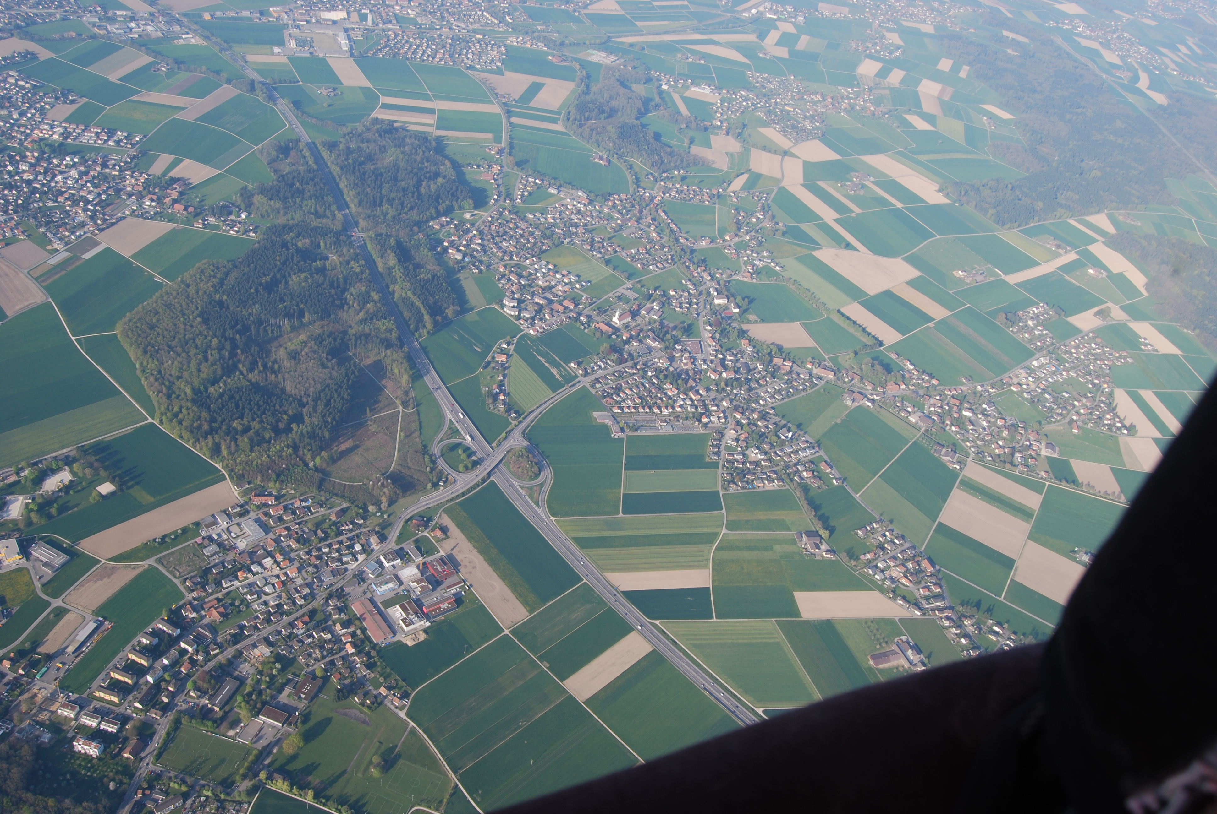 Derendingen, Gerlafingen, Halten, Oekingen and Kriegstetten, canton of Solothurn, Switzerland